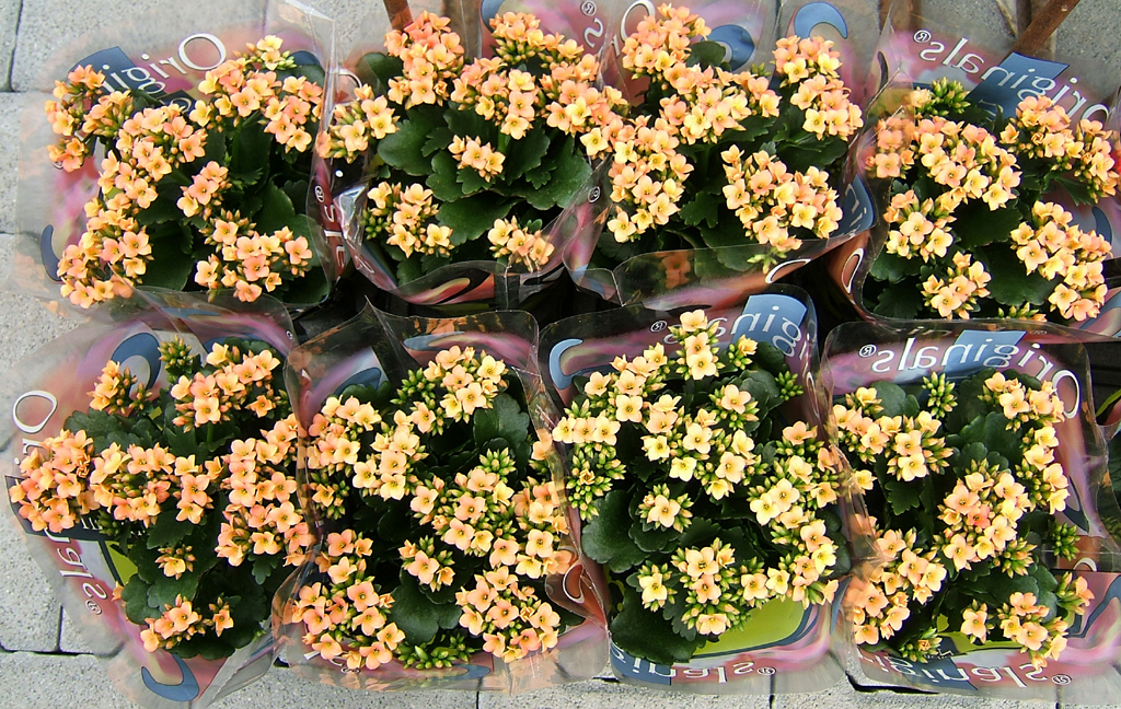 Flaming Katy